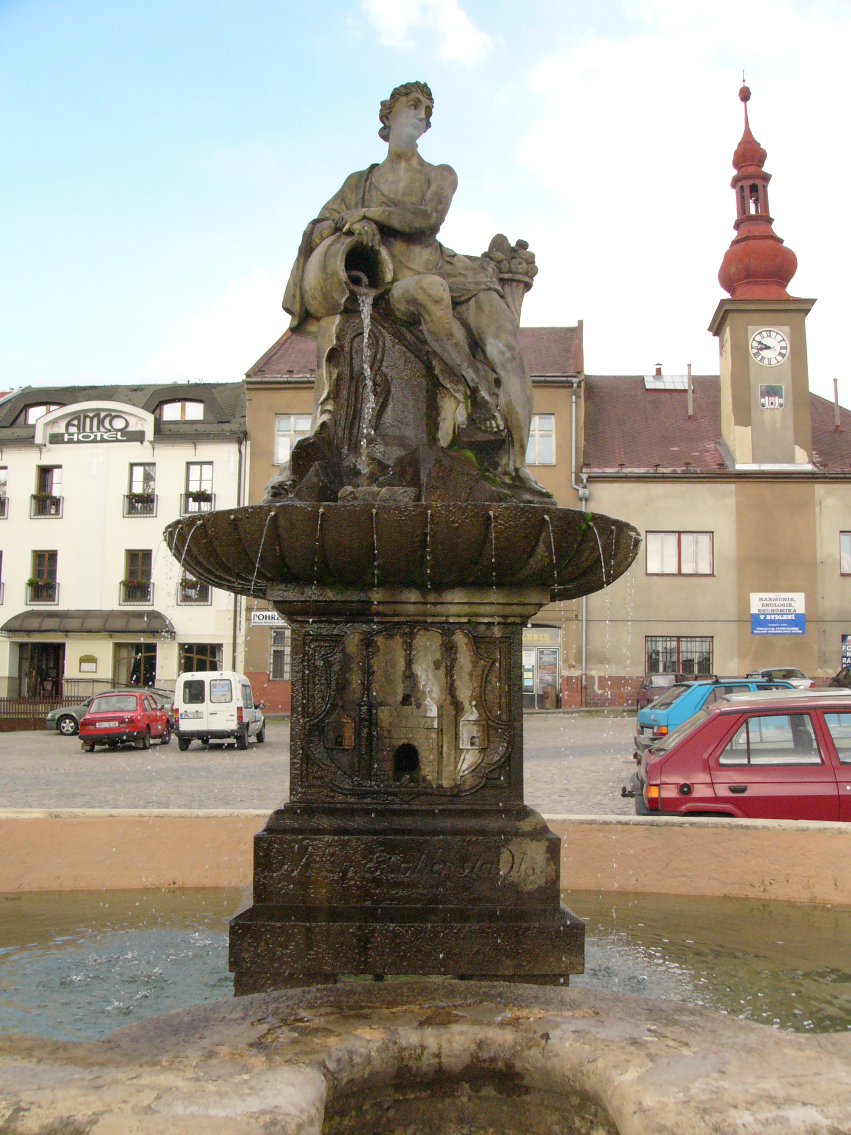 Fountain in Zábřeh (Czech Republic).